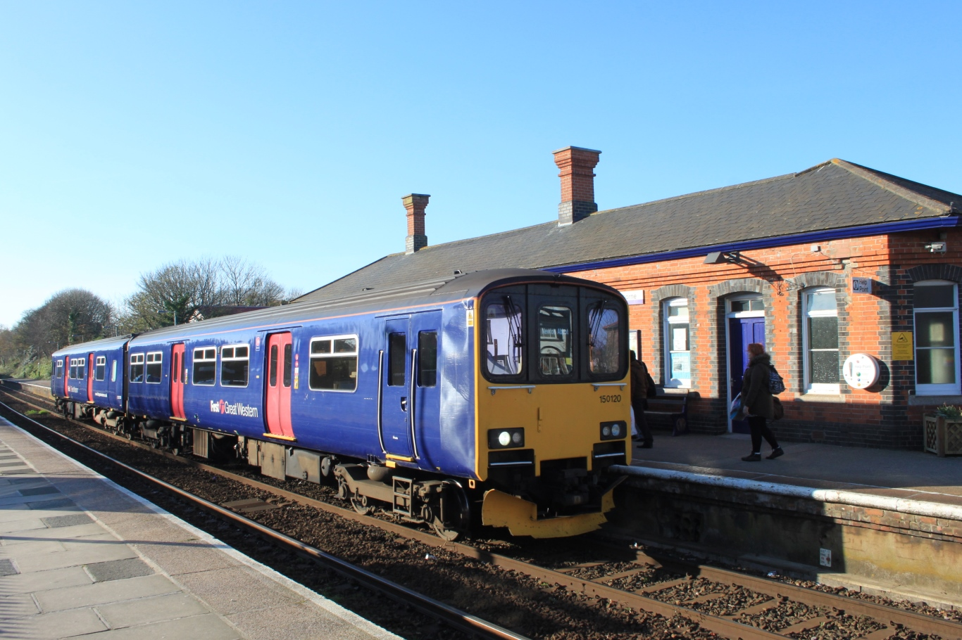 First Great Western's 150120 calls at Camborne in Cornwall with a local service from Penzance to Newton Abbot.